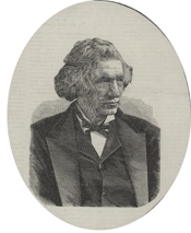 Former United States Representative from New York William Erigena Robinson.